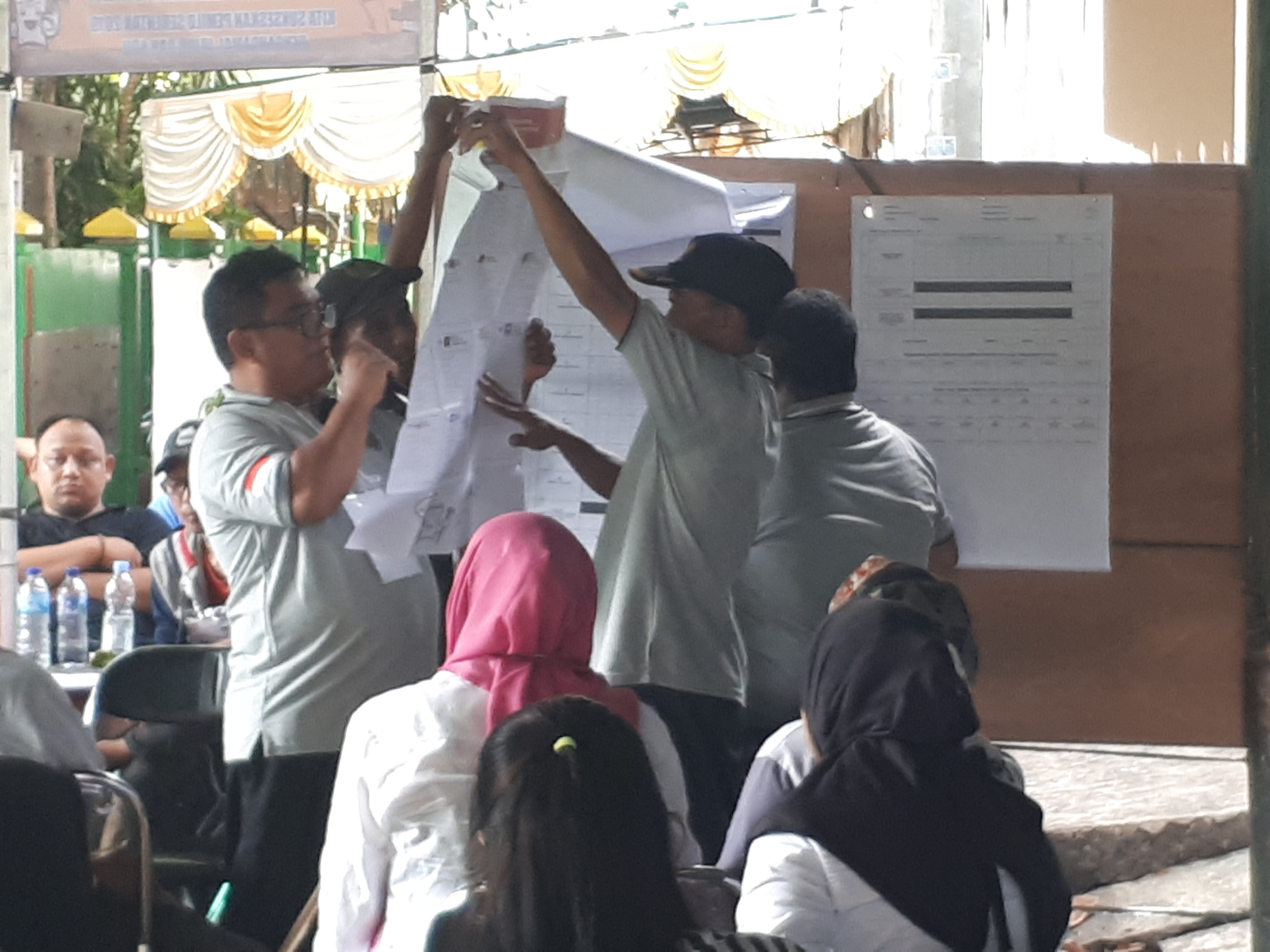 A group of functionaries from the Election Commision of Indonesia and several bystanders from various organizations and parties witnessing the vote count of the TPS 100 of North Jakarta.